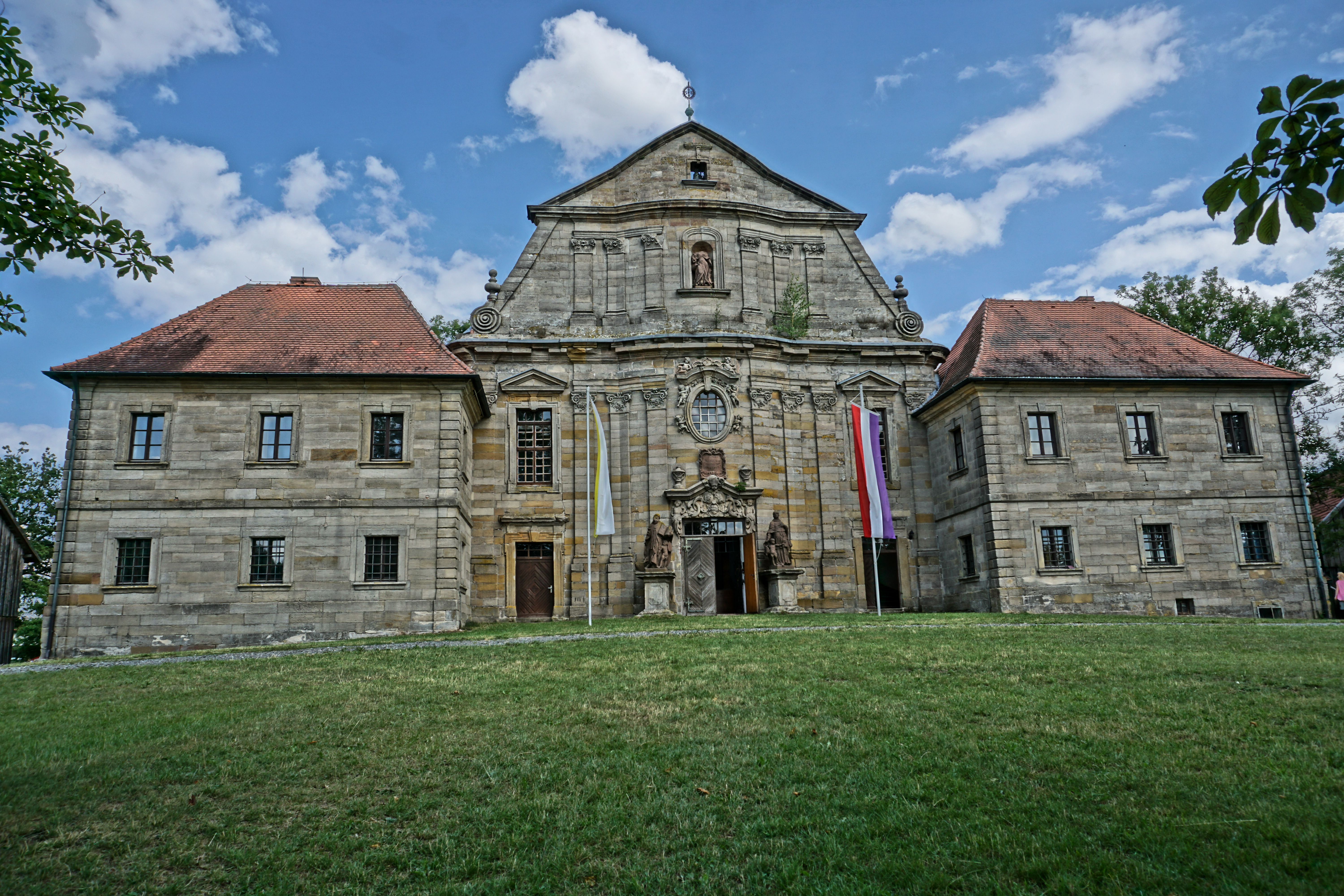 Speinshart, Ruine der barocken Wallfahrtskirche St. Barbara. Wikidata has entry Q41241234 with data related to this item.